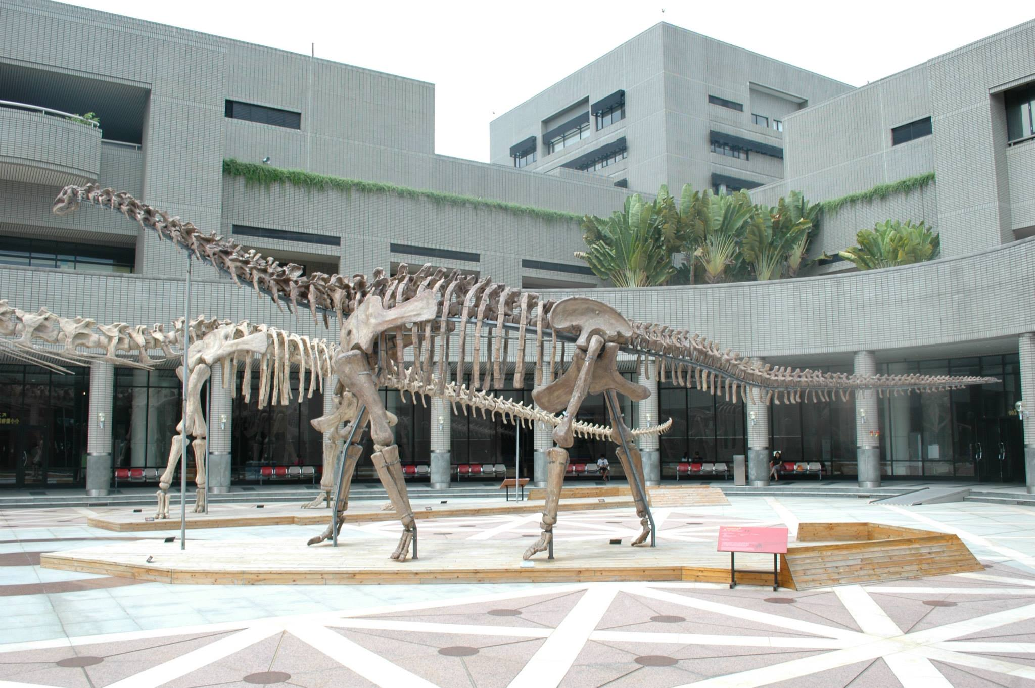 NMNS, Taichung